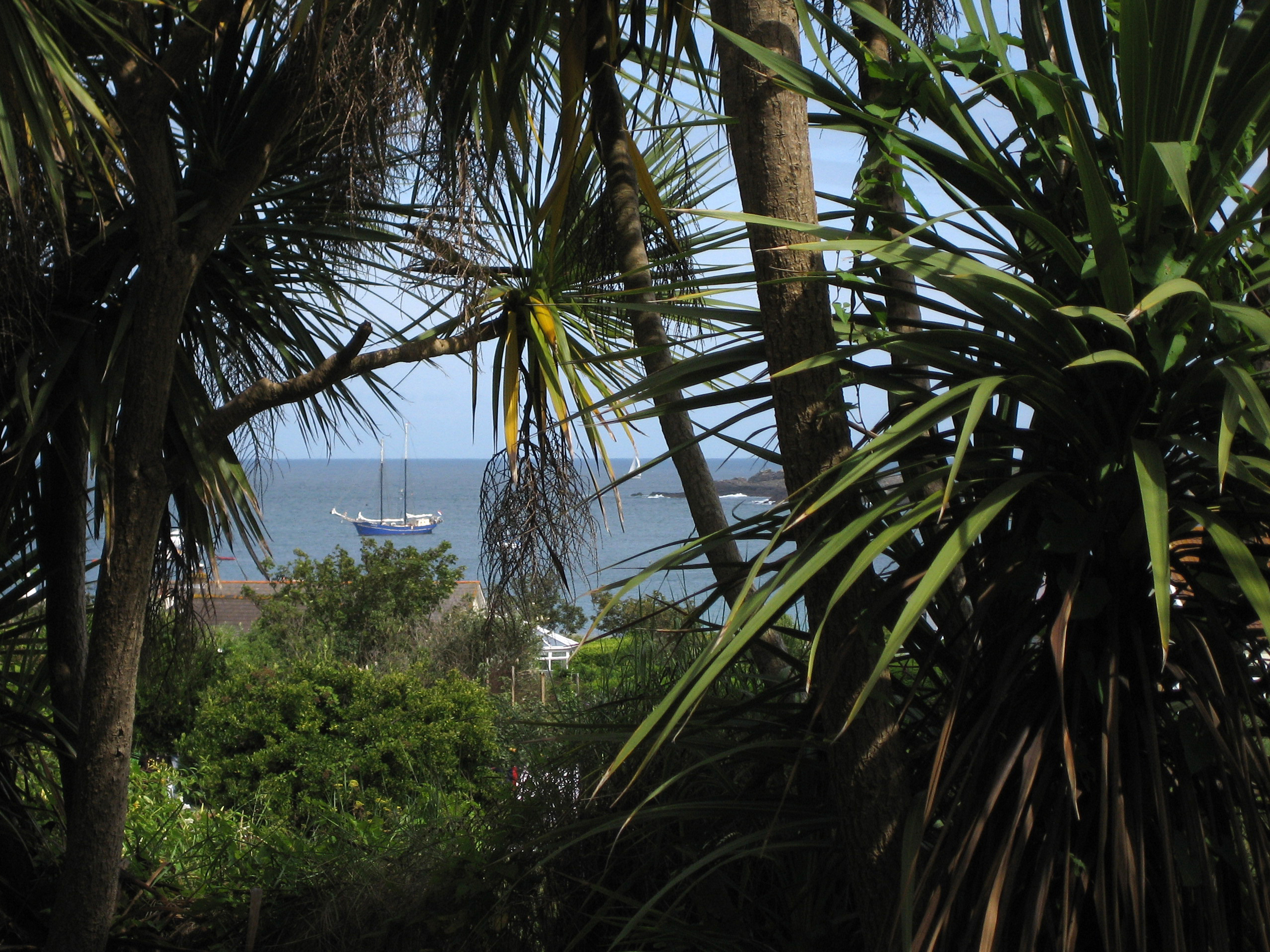 Vegetation of Alderney, showing examples of Cordyline australis (note, not palm trees)